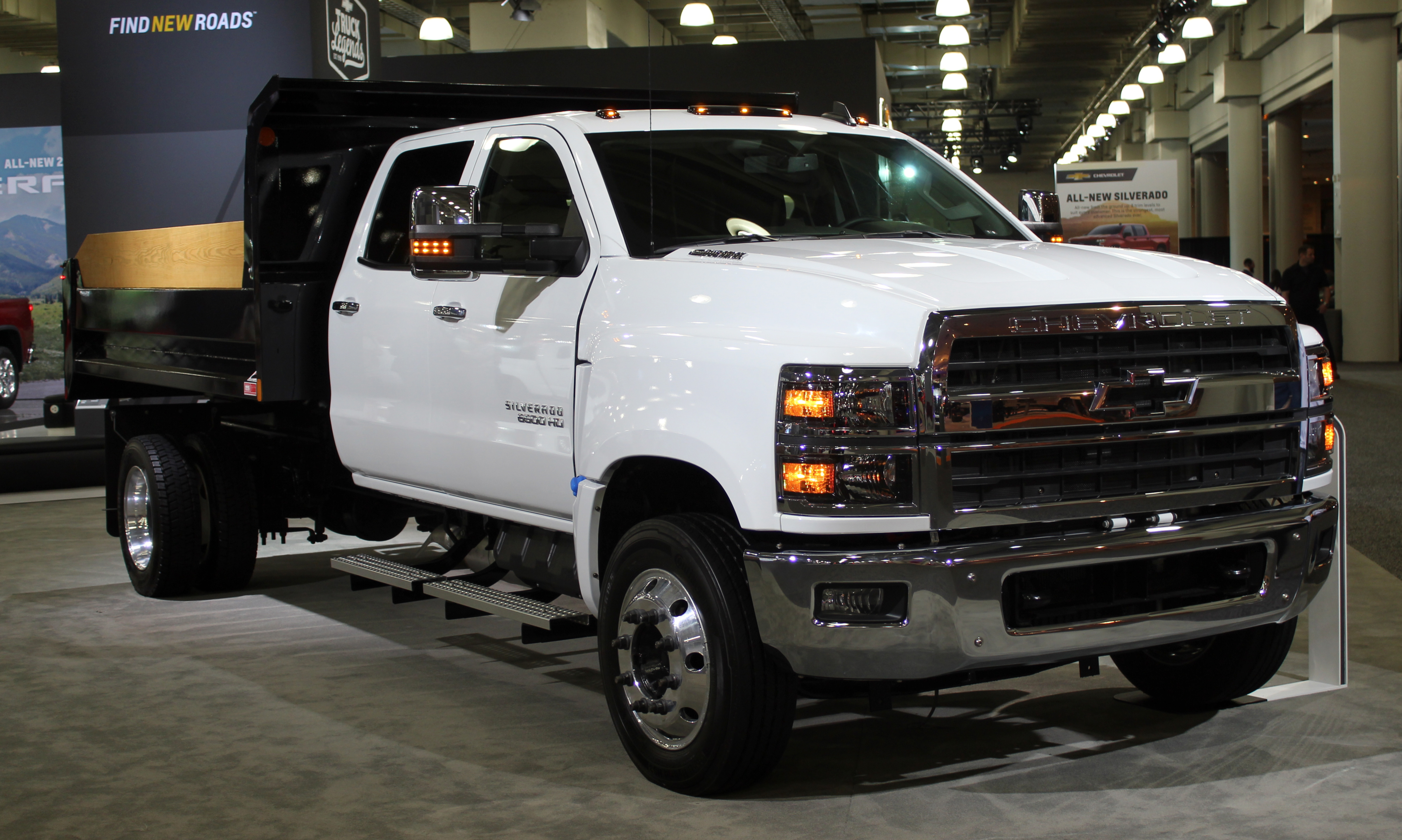 A 2019/2020 Chevrolet Silverado 6500HD photographed during the 2019 New York International Auto Show, in Hudson Yards, Manhattan, NYC